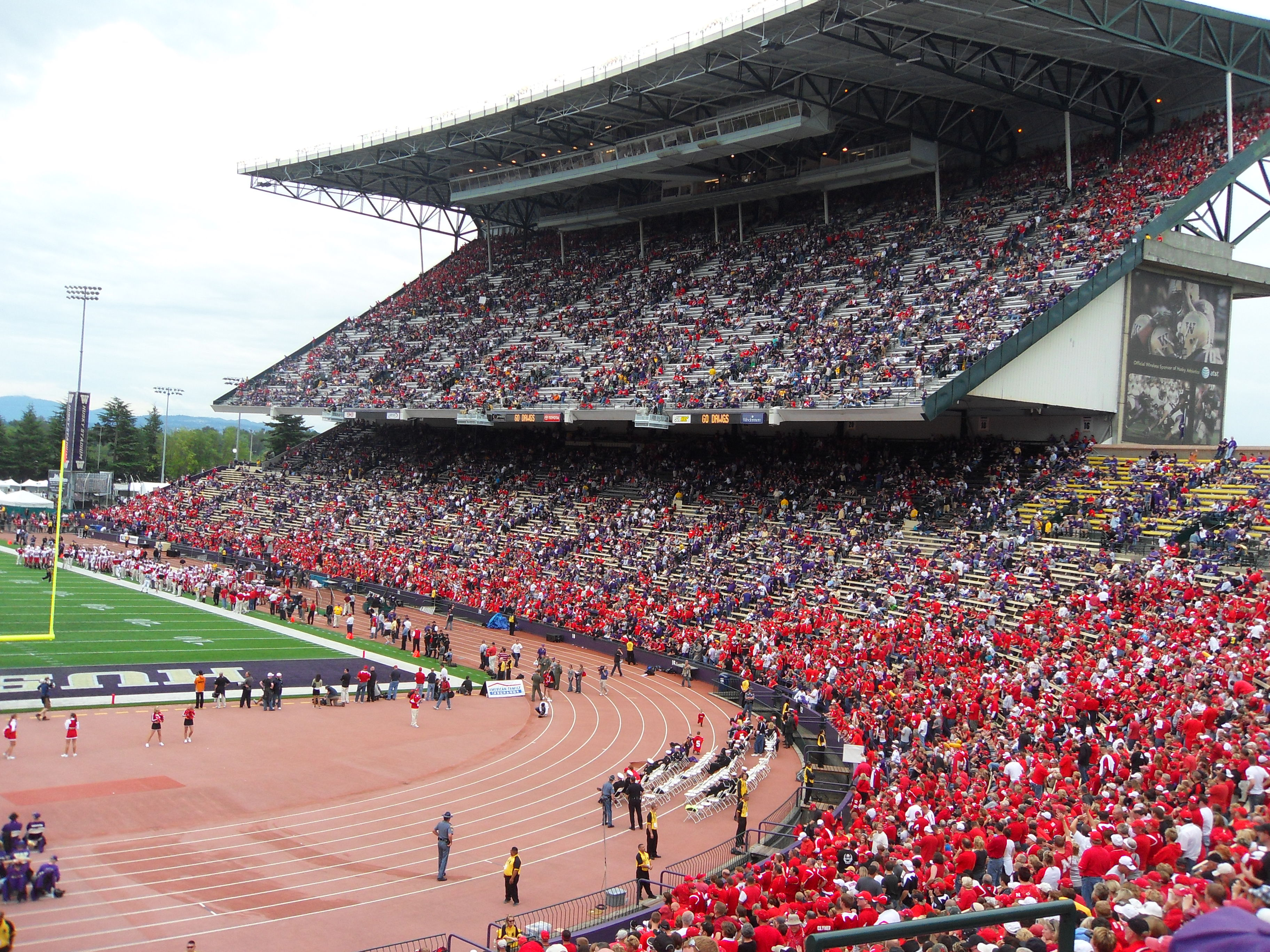 Nebraska Cornhusker fans stay as Washington Husky fans leave the stadium early in the 4th quarter of the football game in 2010.